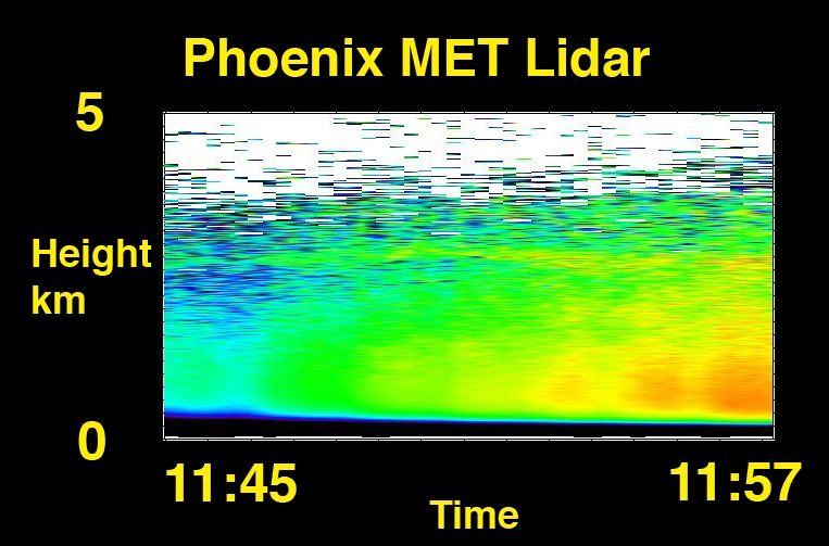 The Evolution of Dust over the Phoenix Lander